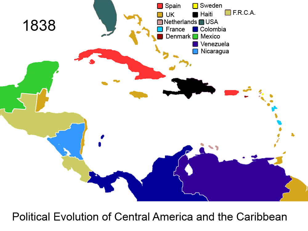 Political Evolution of Central America and the Caribbean